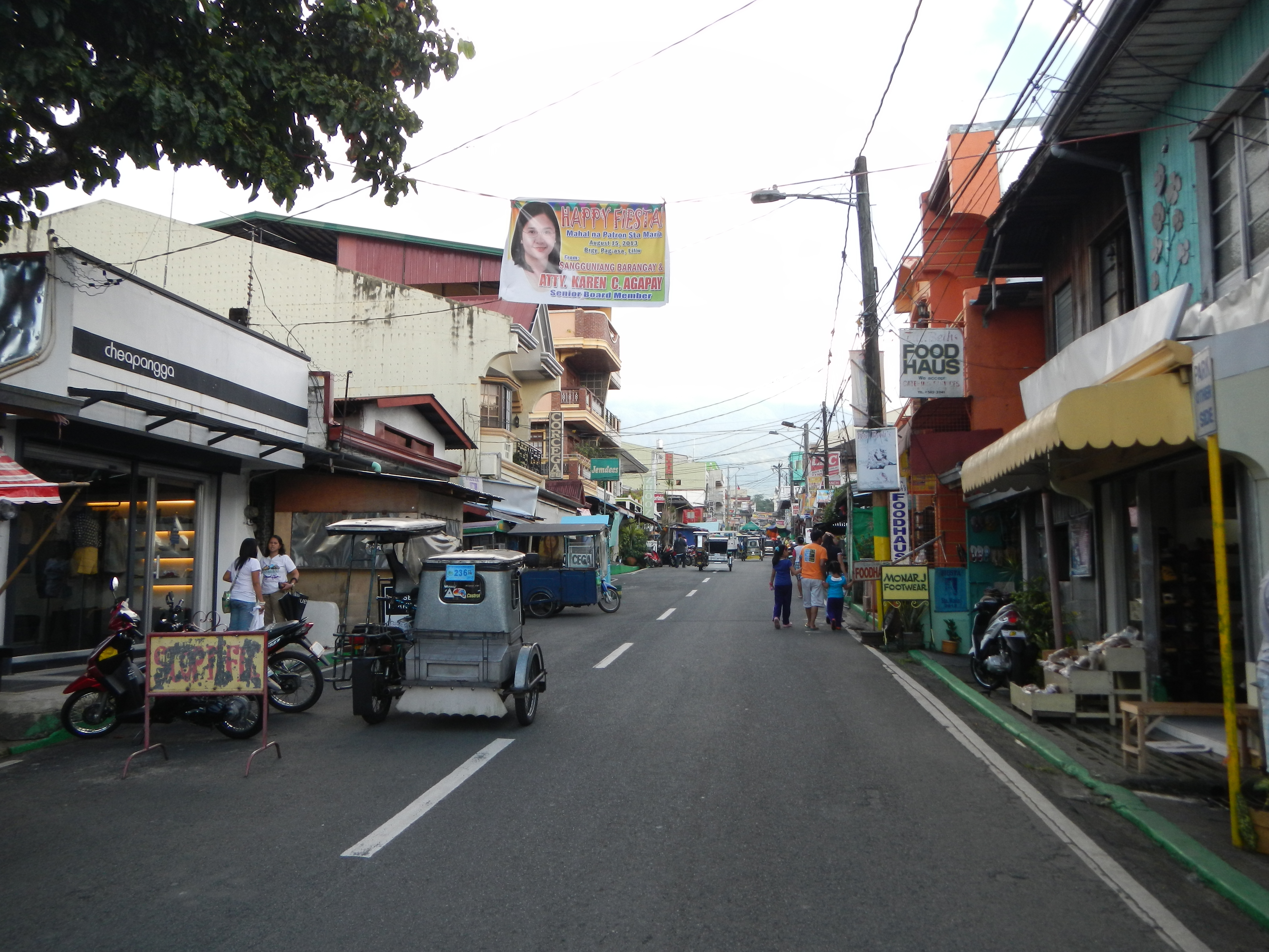 UploadWizard photos --- (general description) of (landmarks, heritage, culture, comprehensive, photography) of – Liliw, Laguna - the hundreds of stores, composing the landmark, world famous Liliw Tsinelas, Shoes, or Slippers industry, in Centro, Poblacion [ [1]) ---- Liliw, Laguna [2] (fourth class municipality in the province of Laguna,[3] Philippines subdivided into 33 barangays, founded in 1571 by Gat Tayaw, nestled at the foot of Mount Banahaw,[4] latest census, population of 33,851 total land area of 88.5 sq. miles [5] Coordinates: 14°7'15"N 121°27'40"E ‘Tsinelas’: Liliw, Laguna’s pride History of Liliw [6] Capilla de Buenaventura, Saint John the Baptist Parish Church of Liliw [7] Geographical location: Laguna, Region 4, Philippines, Asia Ggeographical coordinates: 14° 7' 55" North, 121° 26' 8" East).